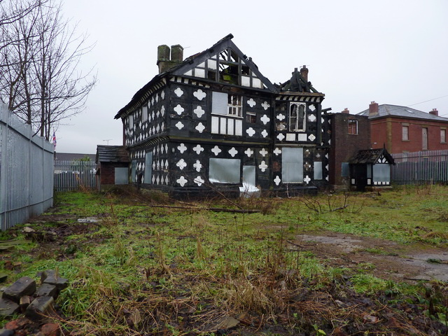 Tonge Hall, Middleton, Greater Manchester after arson damage